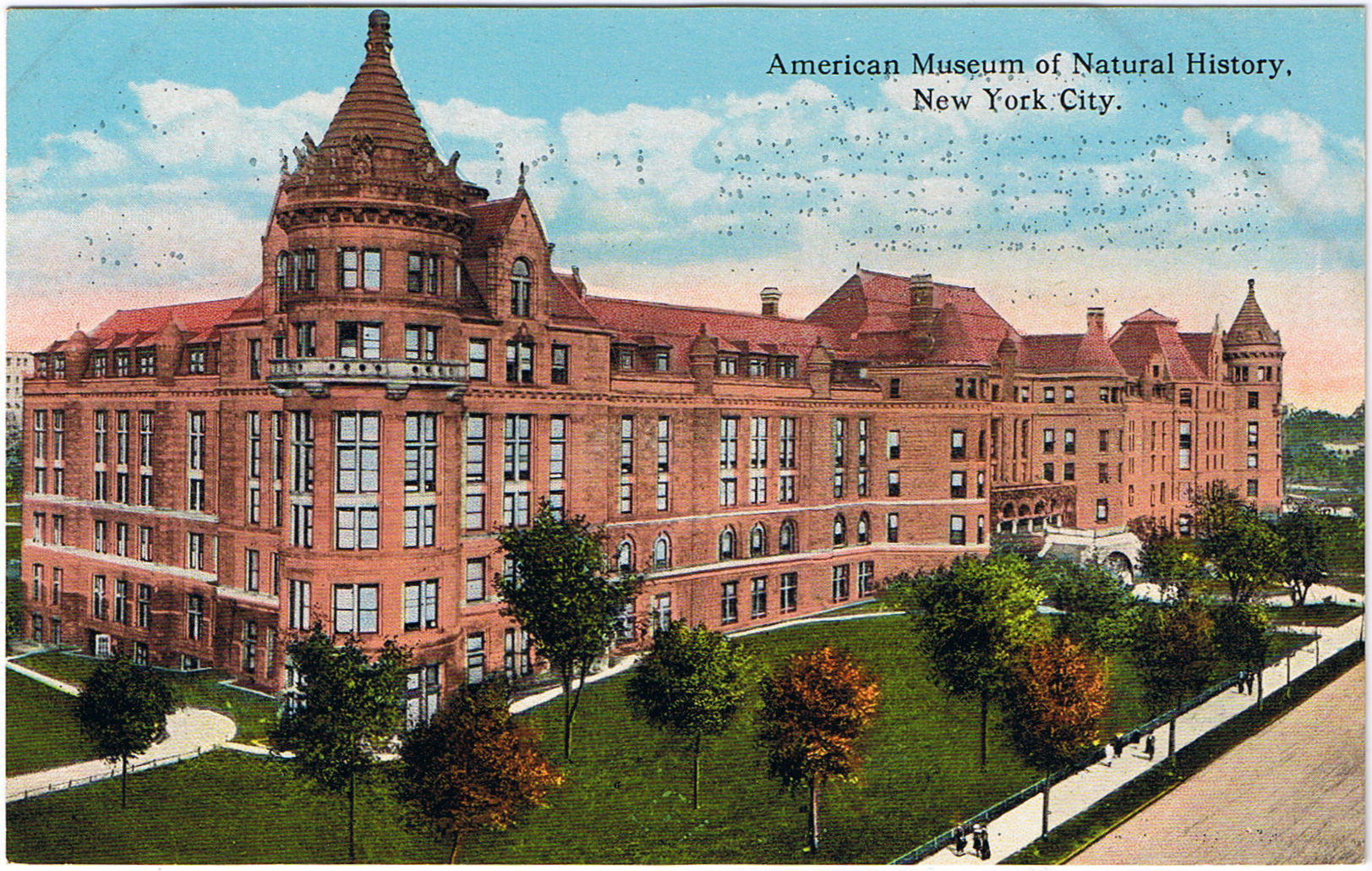 Glossy color postcard of the American Museum of Natural History, New York City. The back is difficult to read because of double-printing (the ink has seeped through to the front). Published by the American Art Publishing Co., New York City.